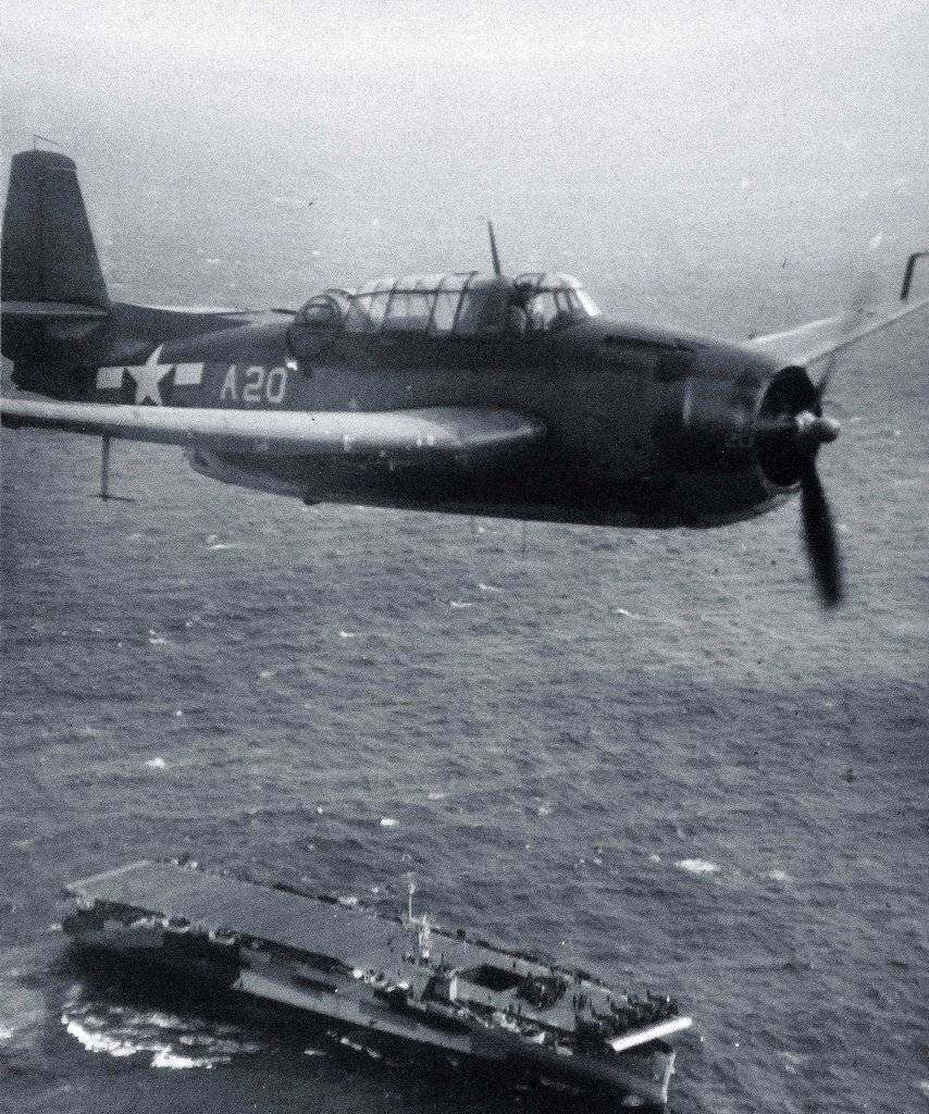 A U.S. Navy Grumman TBM Avenger flies over the escort carrier USS Saginaw Bay (CVE-82) on 14 June 1944.